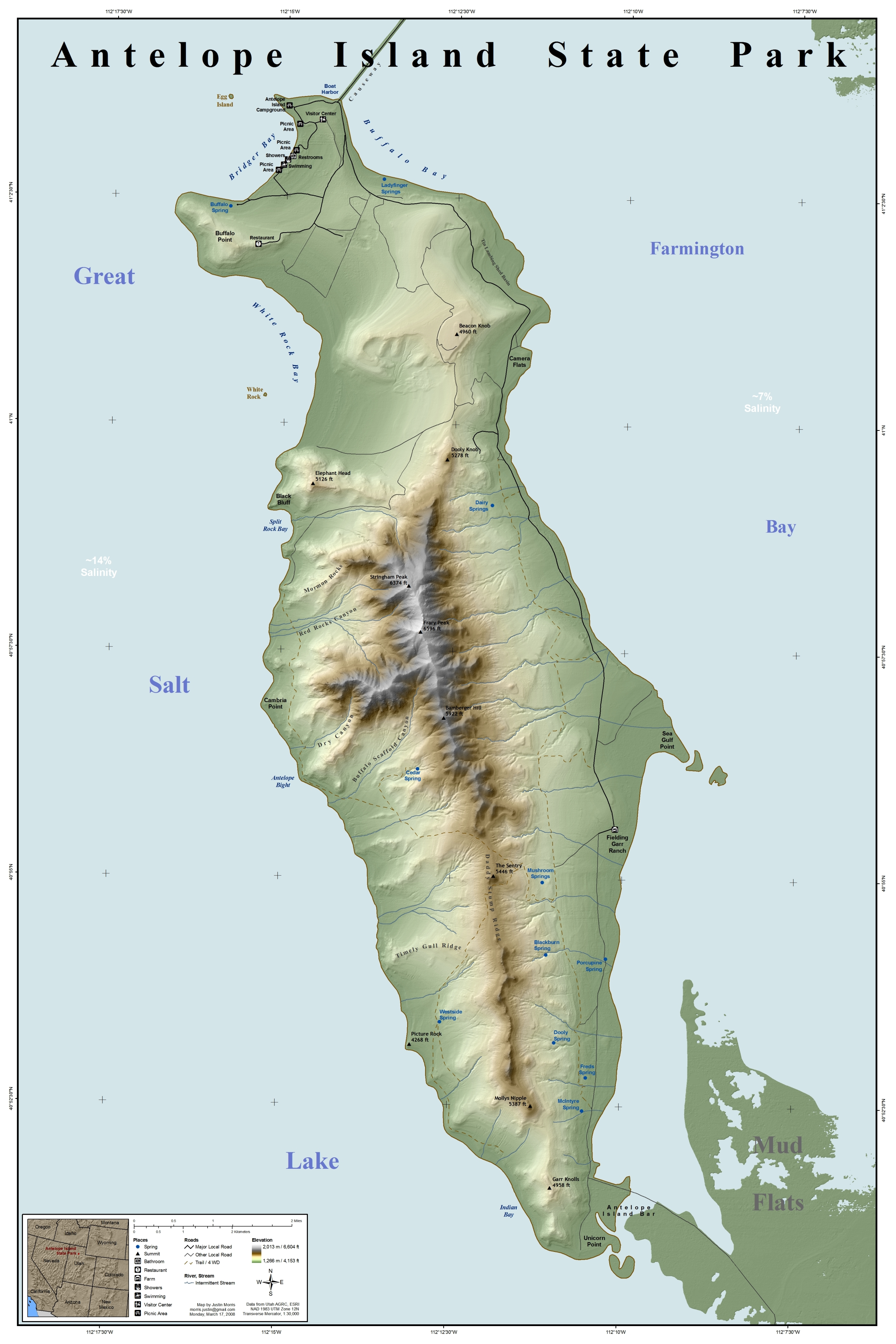 Map of Antelope Island State Park, Utah, Southwestern United States. Showing predominant features of Antelope Island.